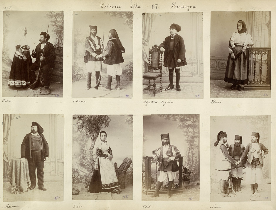 Costumes of Sardinia. Each circa 14 x 10 cm.